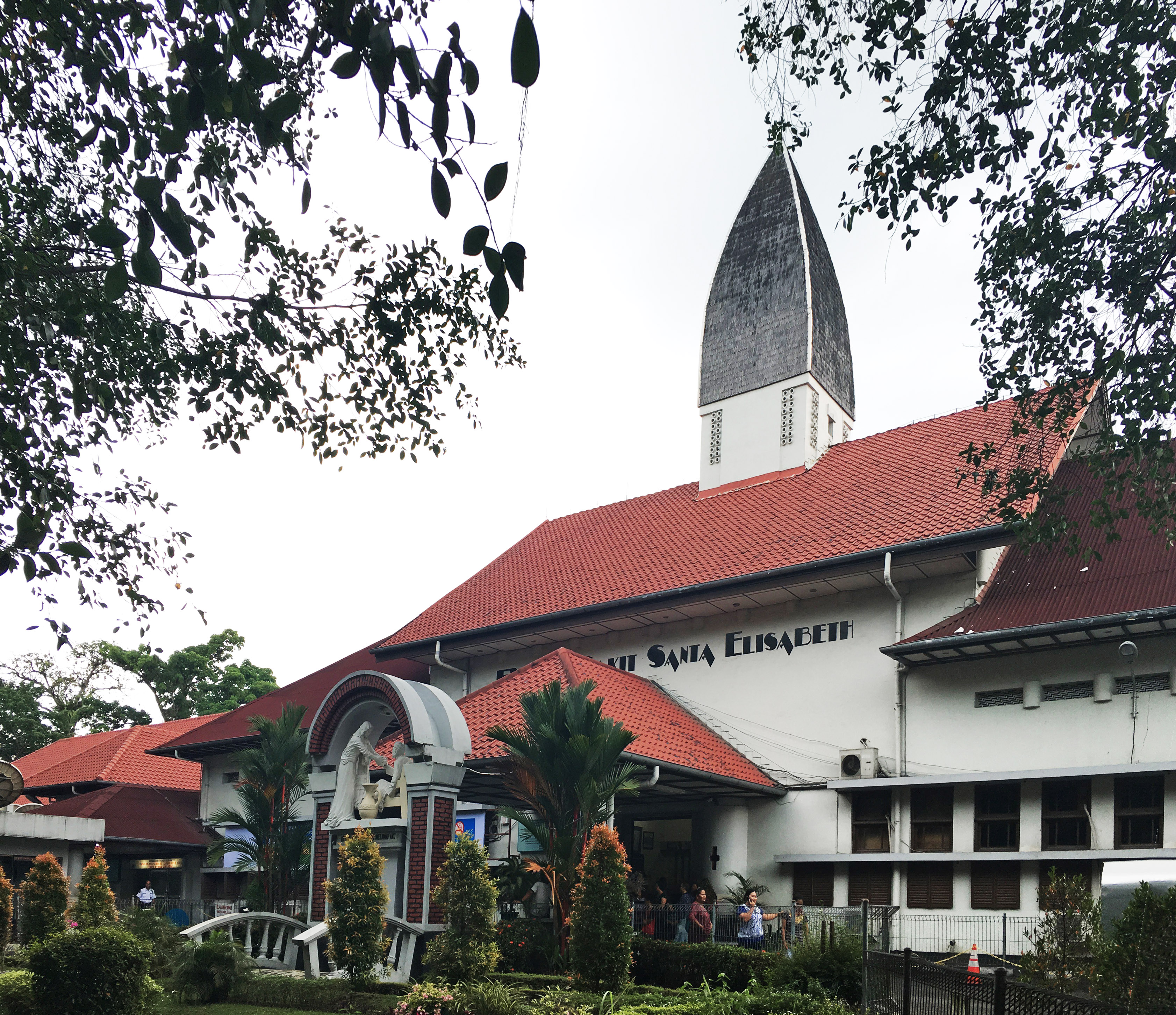 St. Elisabeth Hospital in Medan (1930), modernist masterpiece by Groenewegen.